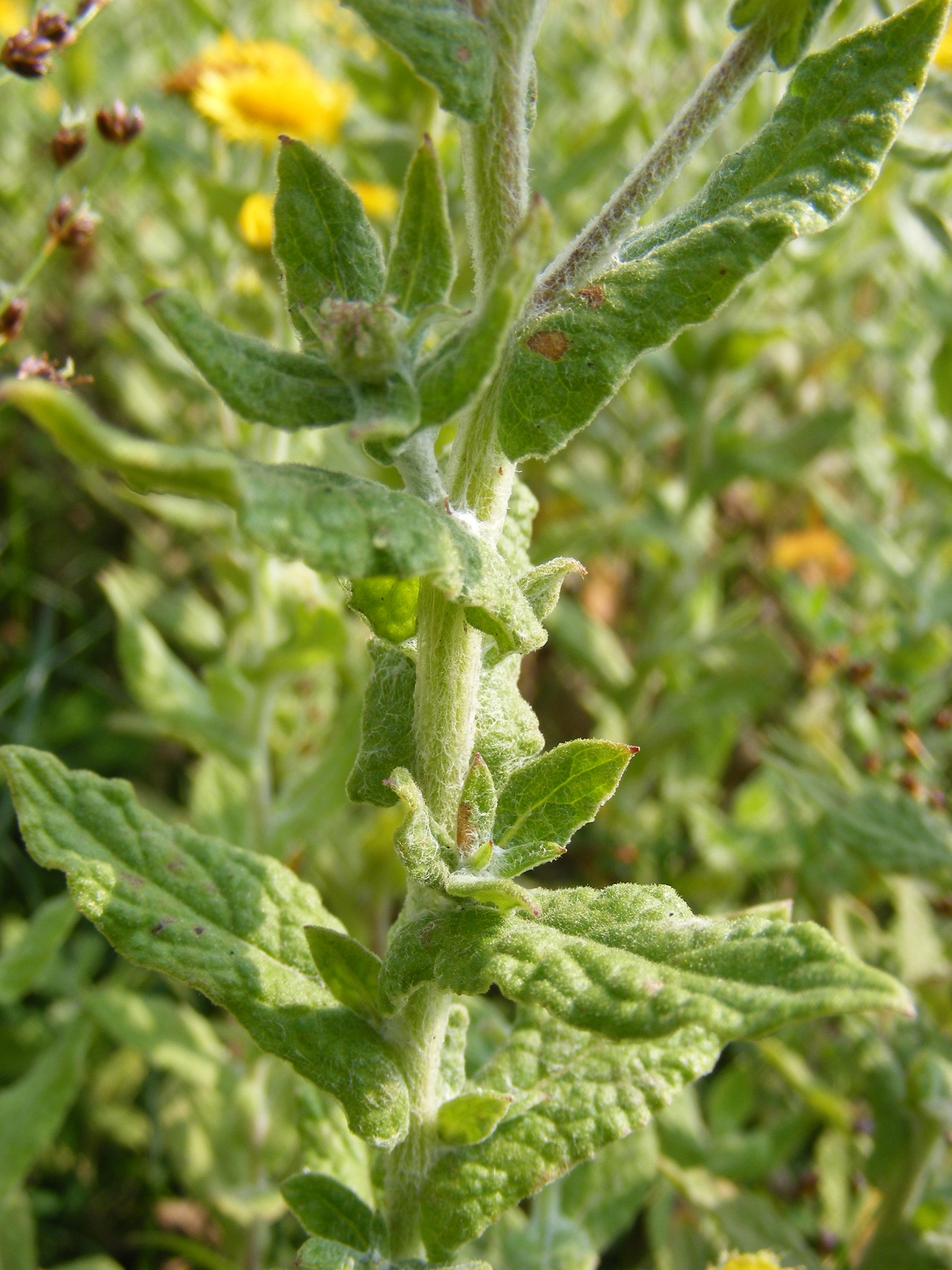 This photo shows Pulicaria dysenterica